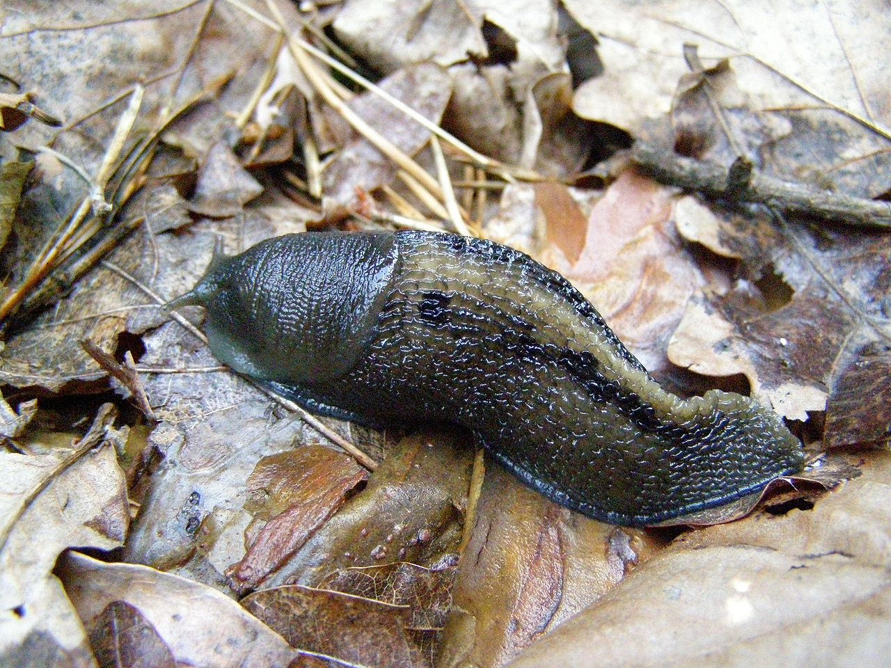 Photo of Limax cinereoniger.